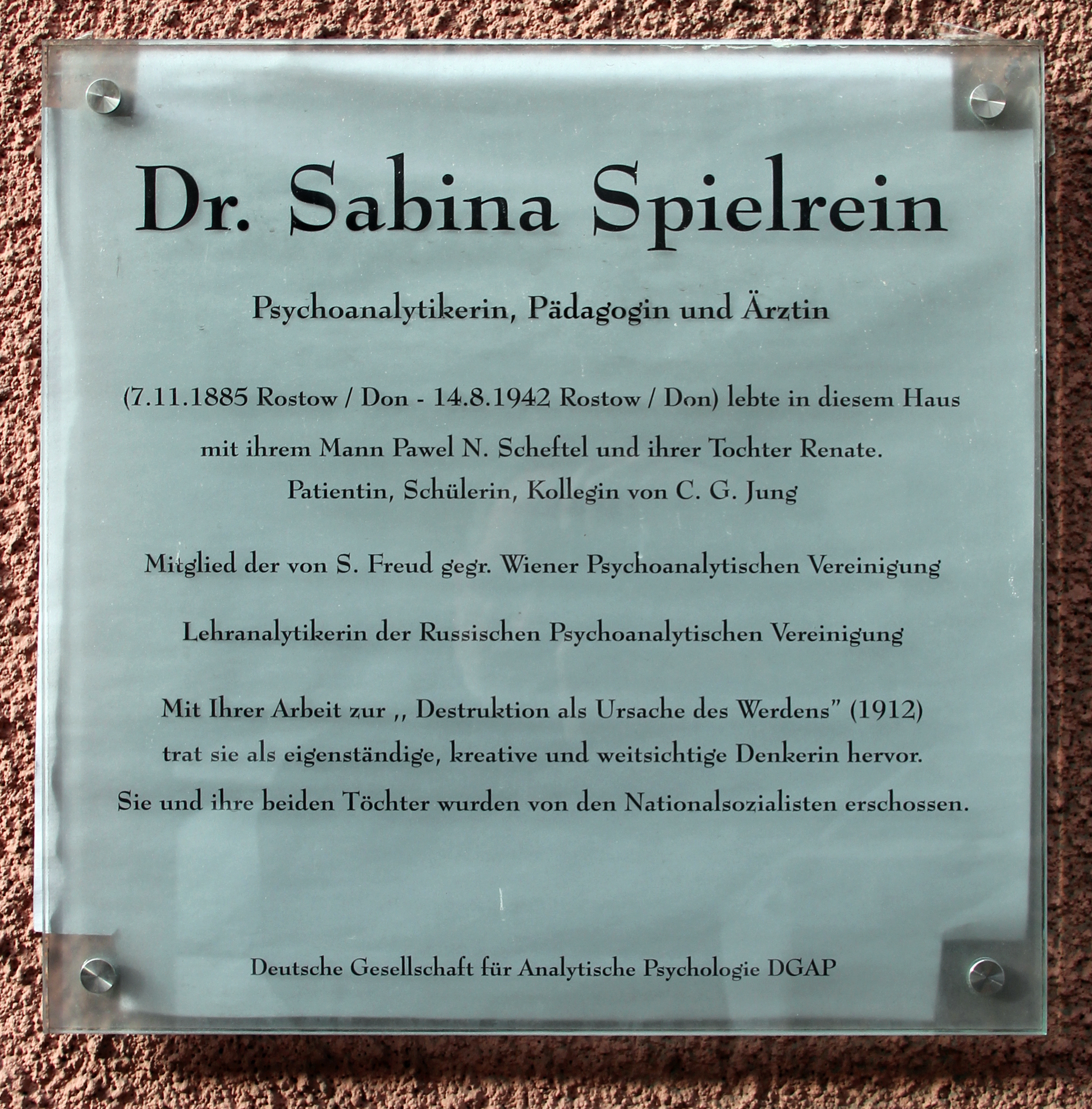 Memorial plaque, Sabina Spielrein, Thomasiusstraße 2, Berlin-Moabit, Germany Dr. Sabina Spielrein Psychoanalyst, pedagogue and doctor. (7.1. 1885 Rostow/Don — 14.8.1942 Rostow/Don) was living in this house together with her spouse Pawel N. Scheftel and her daughter Renate. Patient, student, colleague of C.G. Jung. Member of the Vienna Psychoanalytic Union that was founded by S. Freud Teaching analyst of the Russian Psychoanalytic Union With her work "Destruction as the source of becoming" (1912) she became visible as a creative and foreseeing thinker of her own. She and both her daughters were executed (shot) by the National Socialists. German Association for Analytical Psychology DGAP